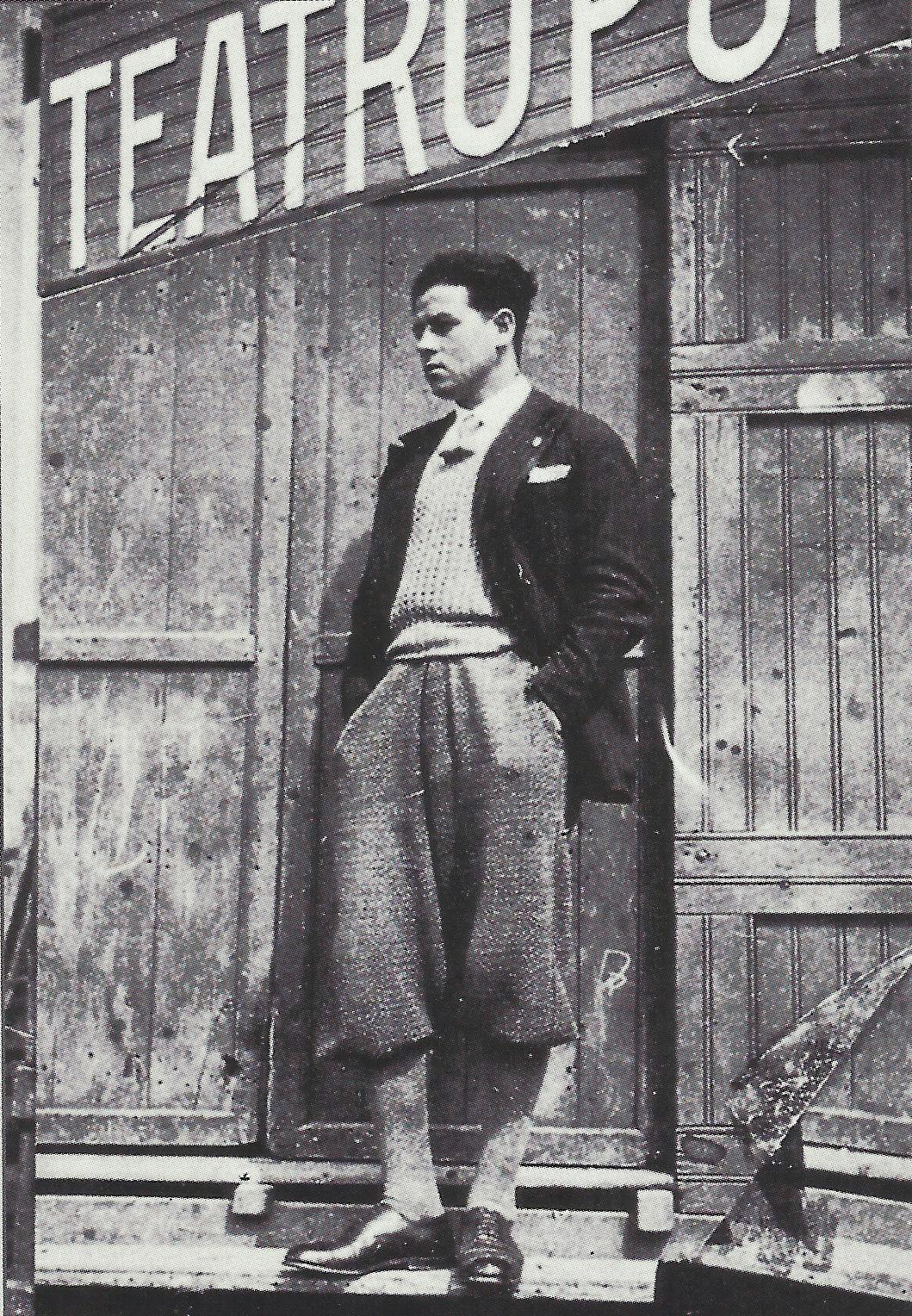 Pietro Luigi Micheletti and his "Teatro Popolare" (1932)